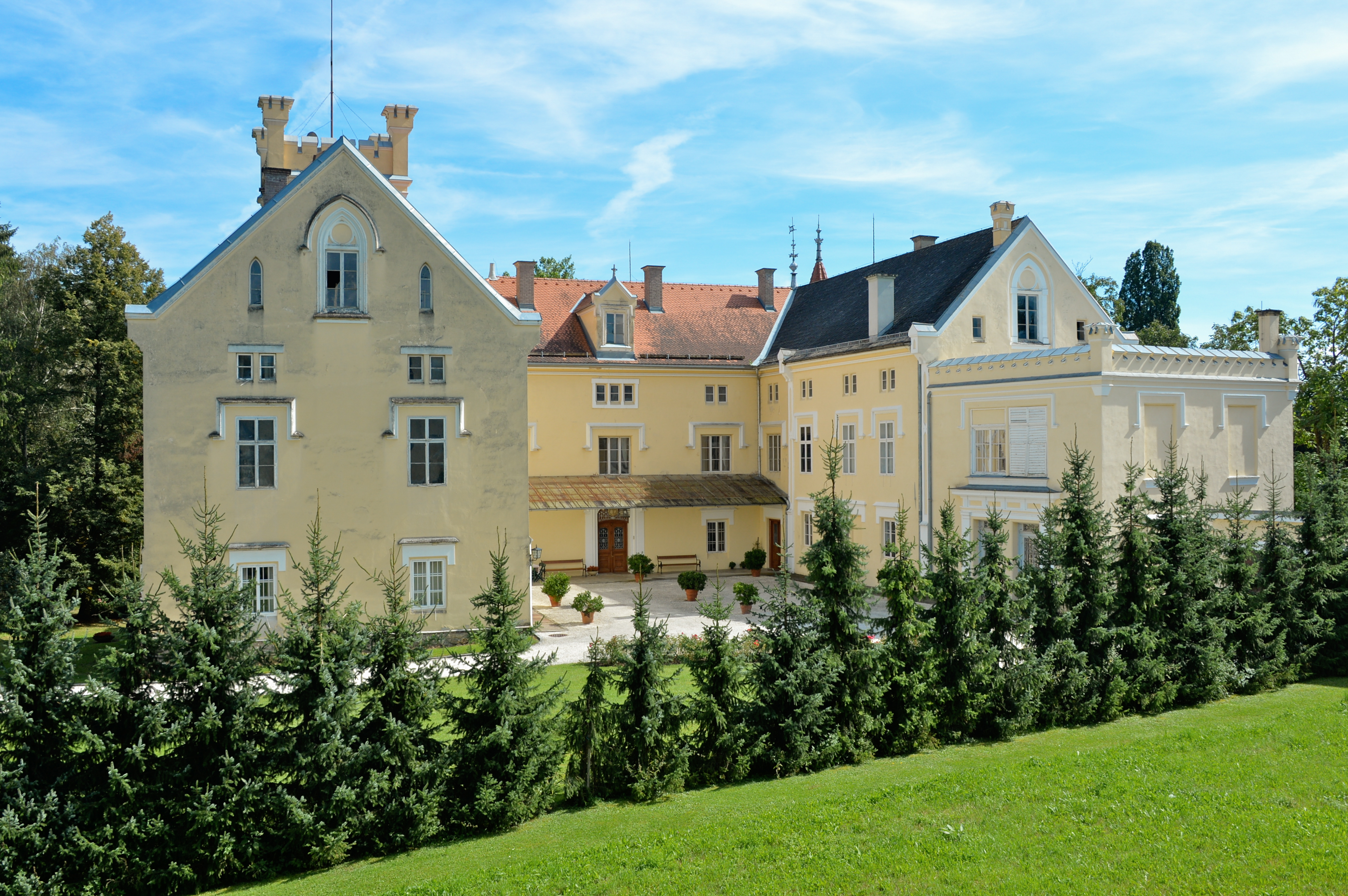 Castle Weissenau at Reinfelsdorf #20, municipality Wolfsberg, district Wolfsberg, Carinthia, Austria, EU